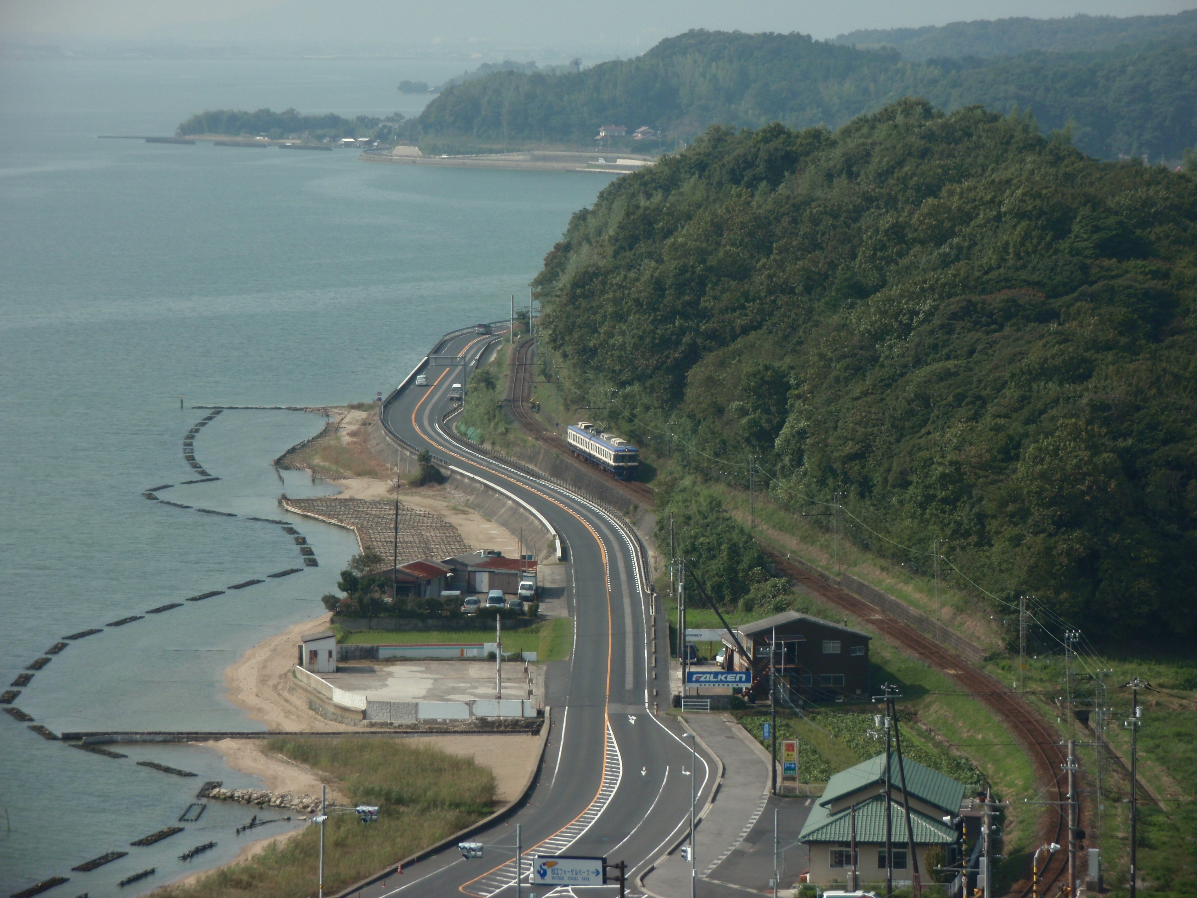 EMU Type 5000 by Ichibata Electric Railway on Kitamatsue Line.